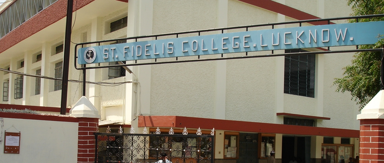 Taken by self.